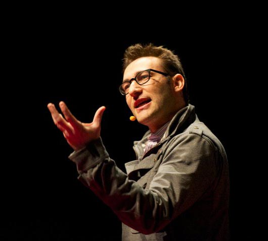 Simon Sinek speaking at TEDx Maastricht in the Netherlands